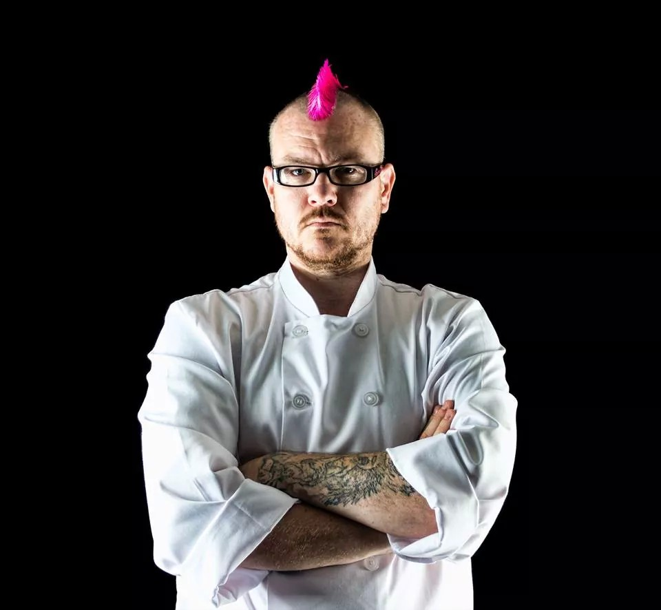 Punk Chef photography